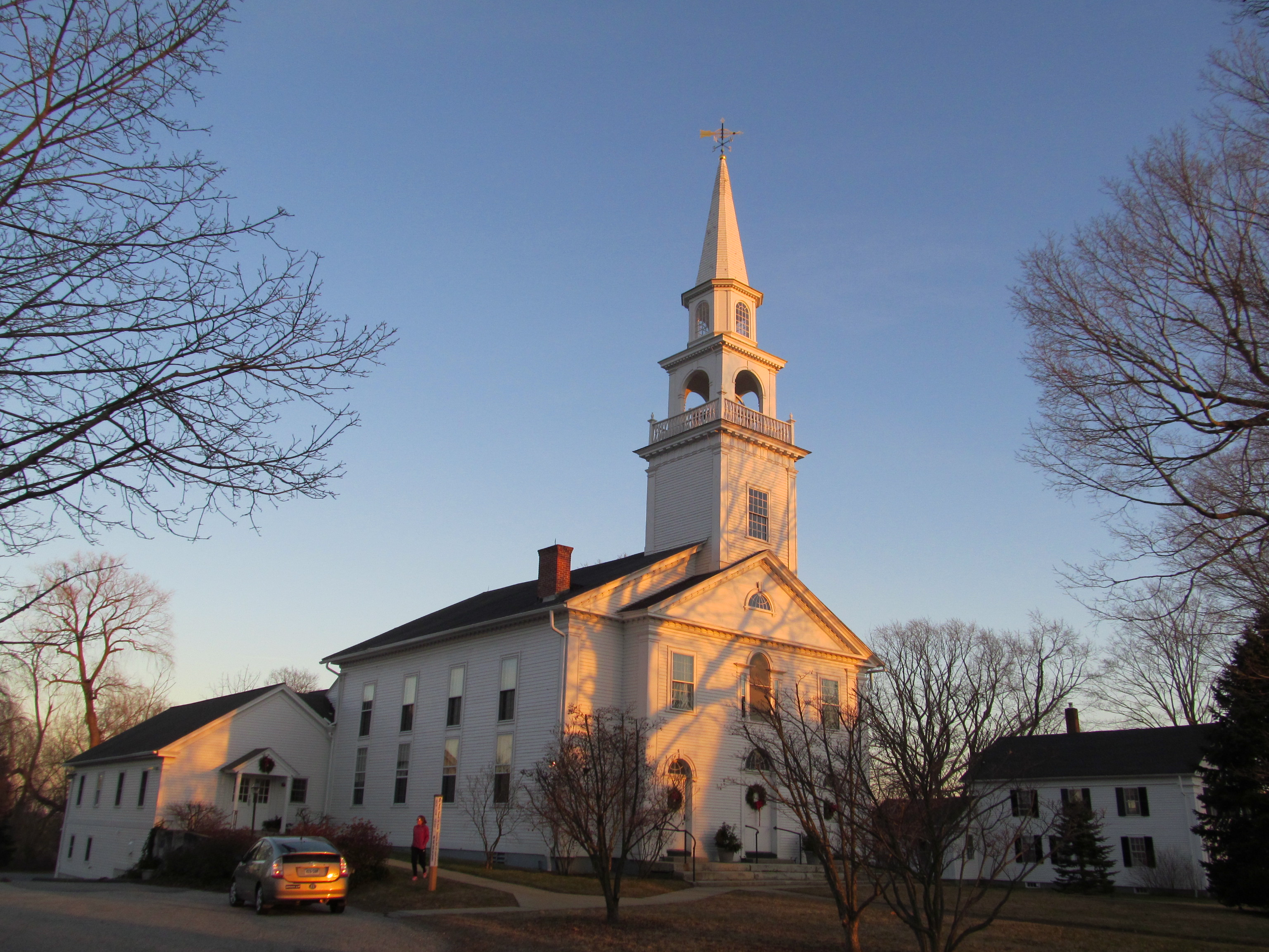 First Congregational Church, Woodstock Connecticut